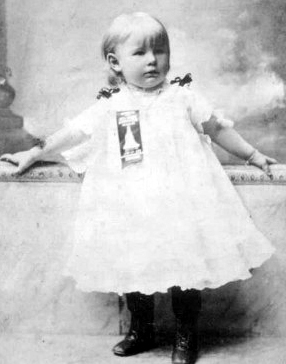 Adella Wotherspoon at 18 months old at the dedication of the memorial to the victims of the General Slocum fire. Source New York Historical Society